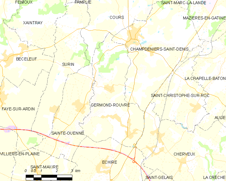 Map of French municipality Germond-Rouvre